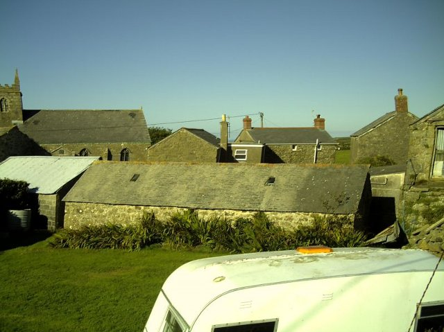 Stone village in Cornwall